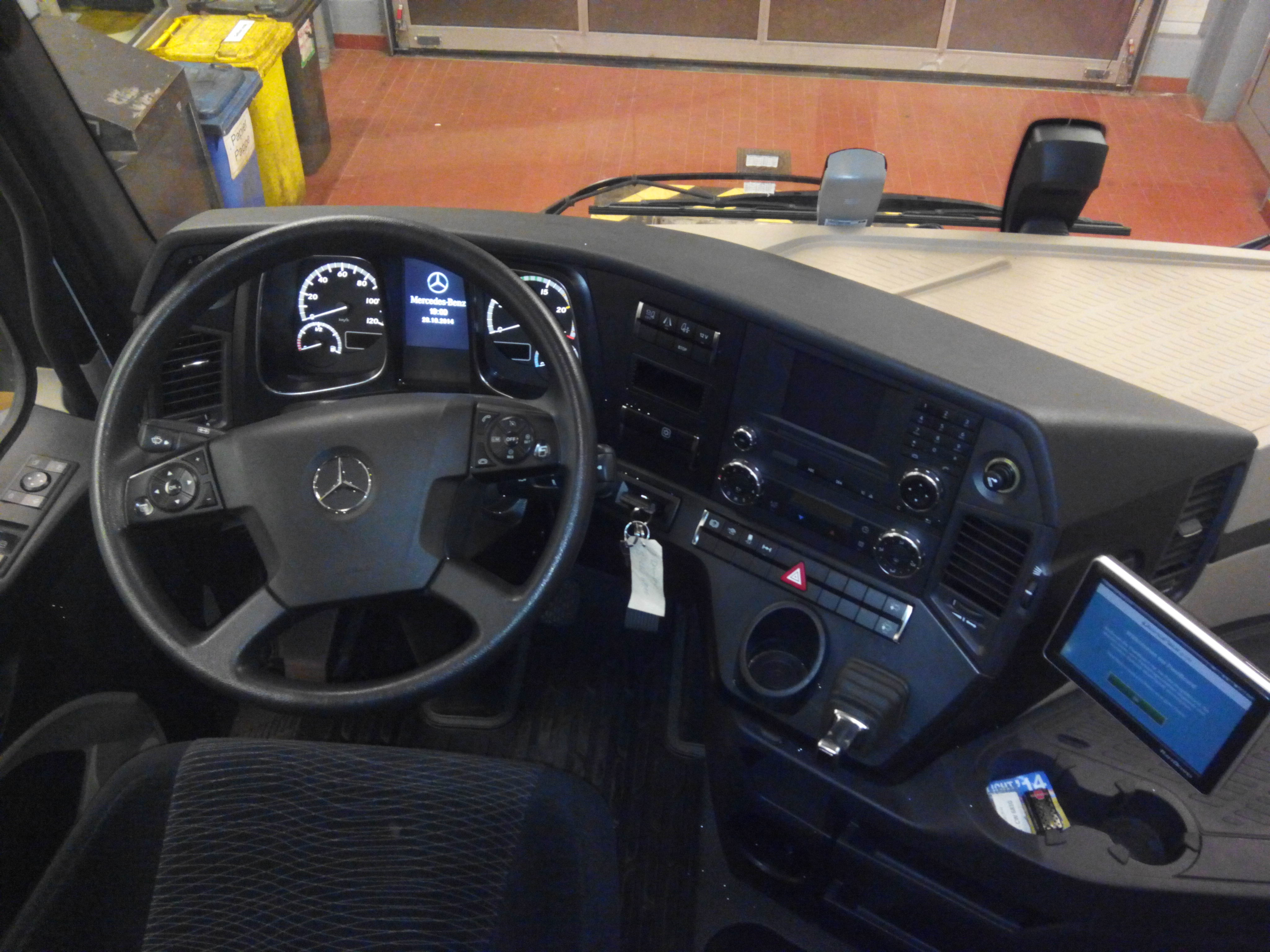 Cockpit of a Mercedes-Benz Actros MP4 (model year 2013)